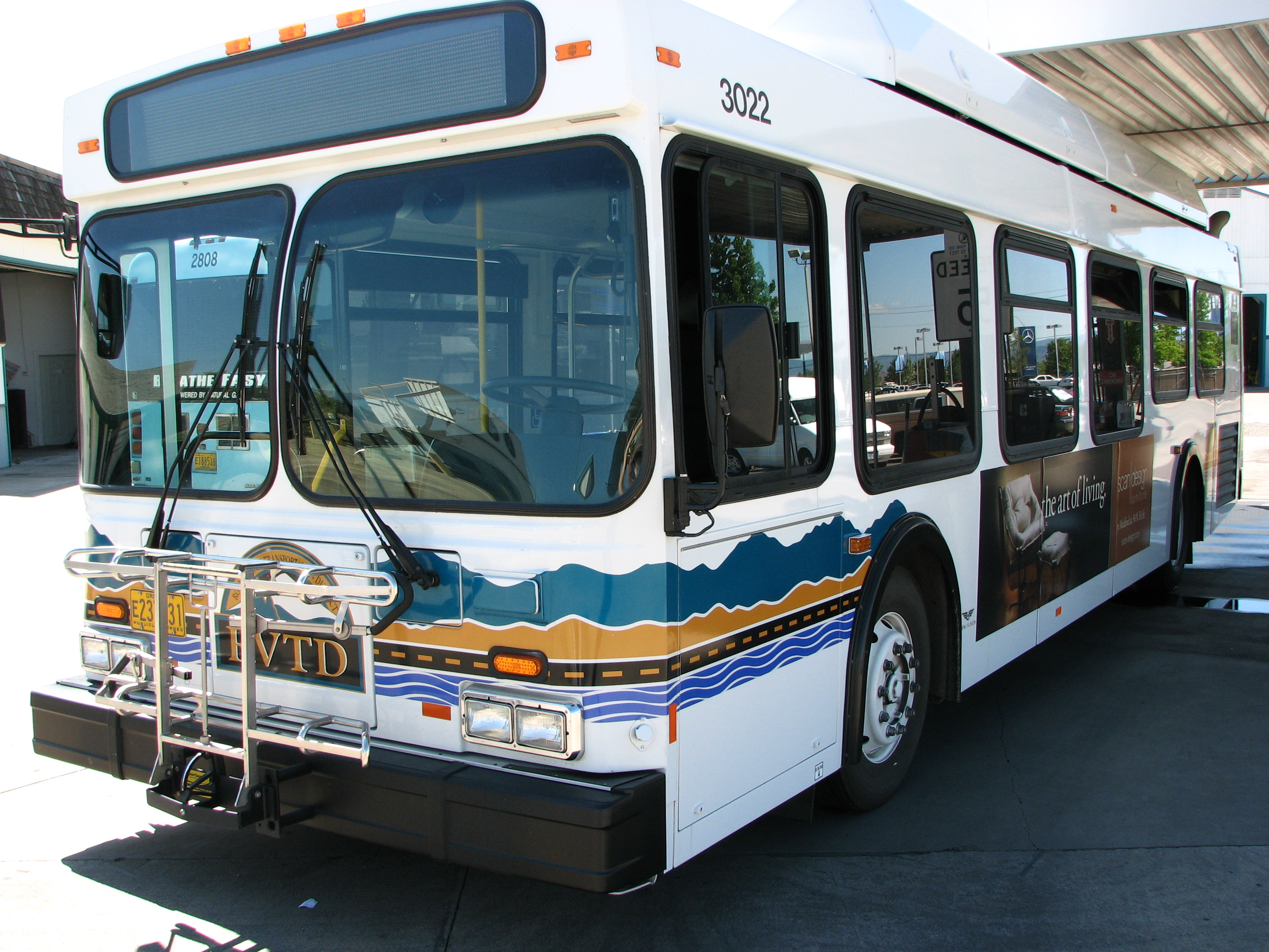 New Flyer C35LF inactive in the bus yard.